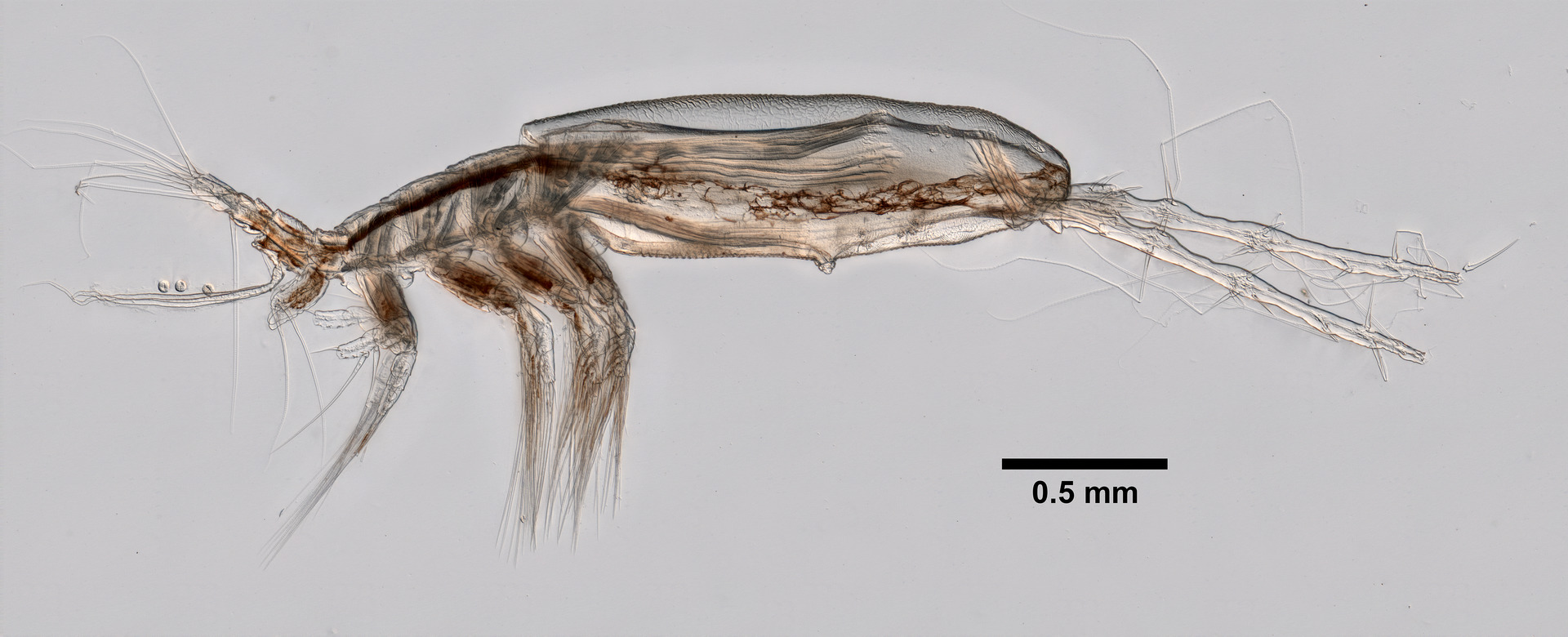 PRESERVED_SPECIMEN; ; ; microslide; ; SEB20170530S15; IZ number 102076; lot count 1